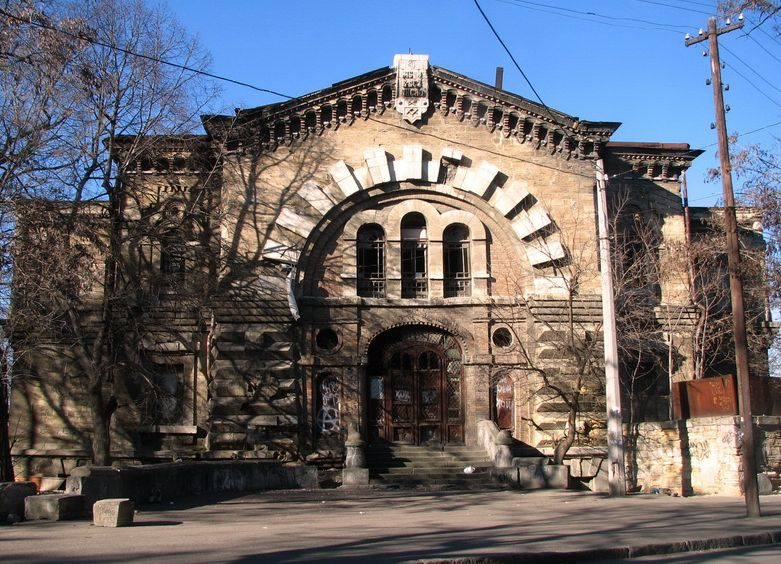 Abandoned building of former Odessa branch of Emperior Russian Tekhnical Society. Odessa, Ukraine, 2011